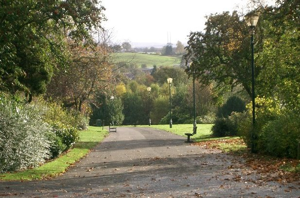 Pittencrieff Park, known locally as The Glen, was gifted to the people of Dunfermline by the millionaire and philanthropist Andrew Carnegie who was born in the town.